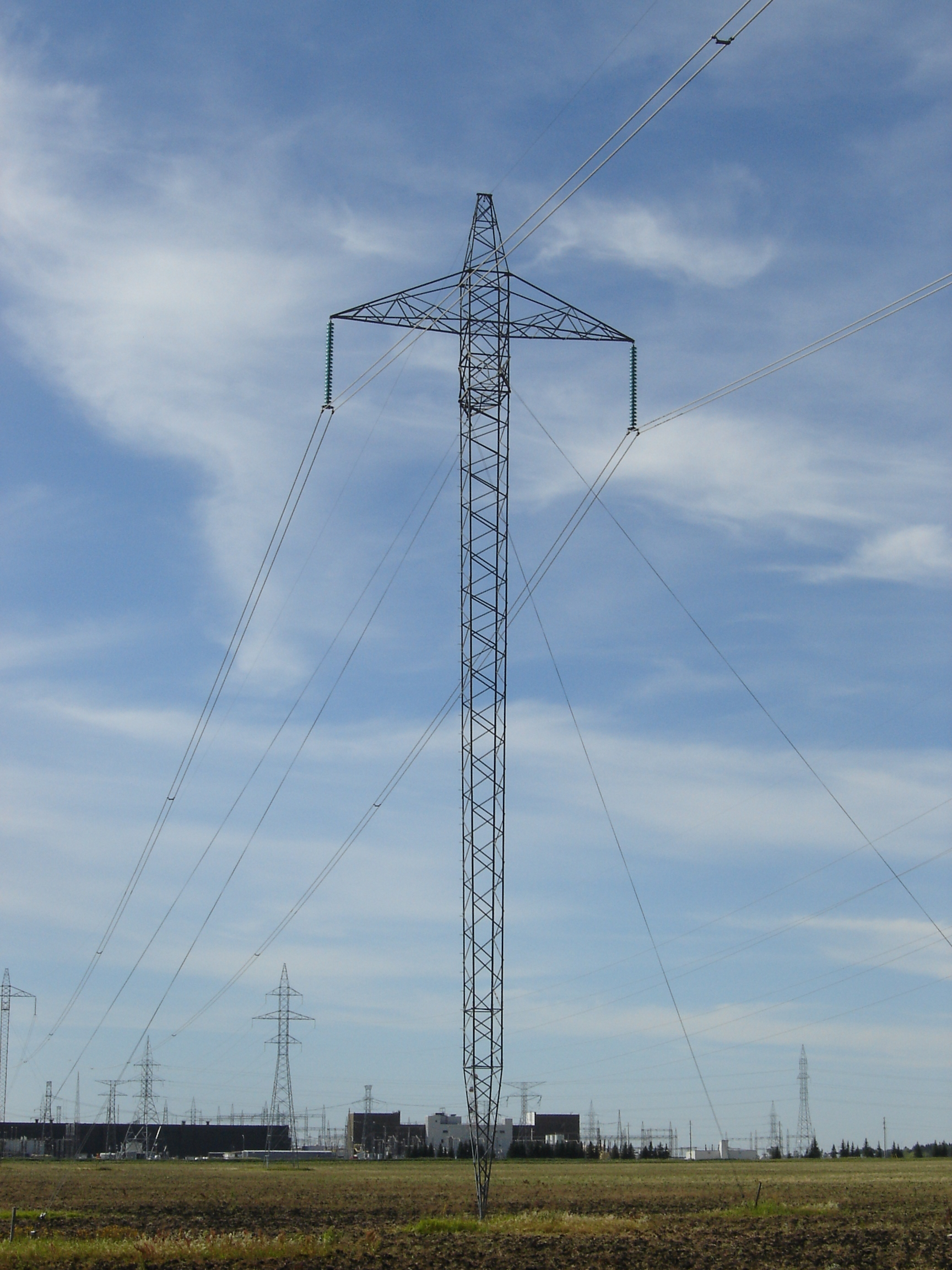 HVDC Distance Pylon near the terminus of the Nelson River Bipole adjacent to Dorsey Converter Station north of Rosser, Manitoba, Canada